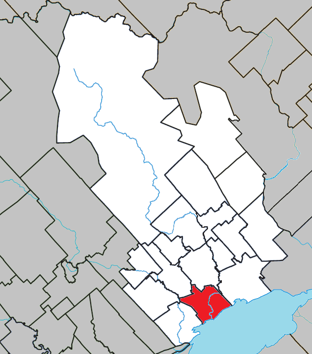 Location of Louiseville, Quebec within Maskinongé Regional County Municipality.